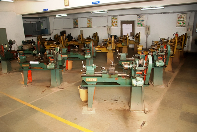 workshop of rizvi college of engineering's mechanical engineering department.